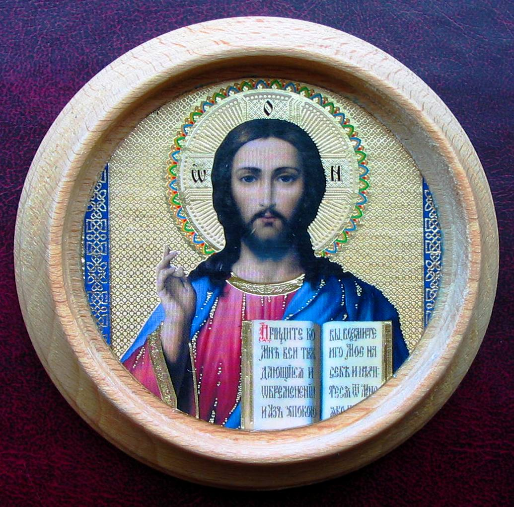 Ukrainian ring icon of Jesus Christ